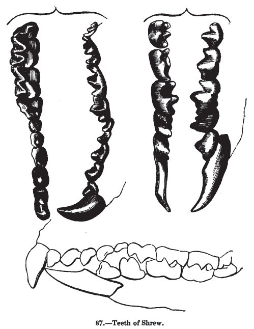 Dentition of a common shrew